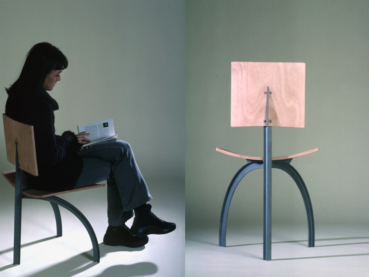 Sandrine Dole, pat'a mambo, 1999-2000. Furniture in wood, steel. Production: Cameroon; installation: Central African republic. Designed for the client French cultural centre in partnership with cabinet d'architecture Diwouta, Cameroon. Photo bu Ensci-les-Ateliers 2000.